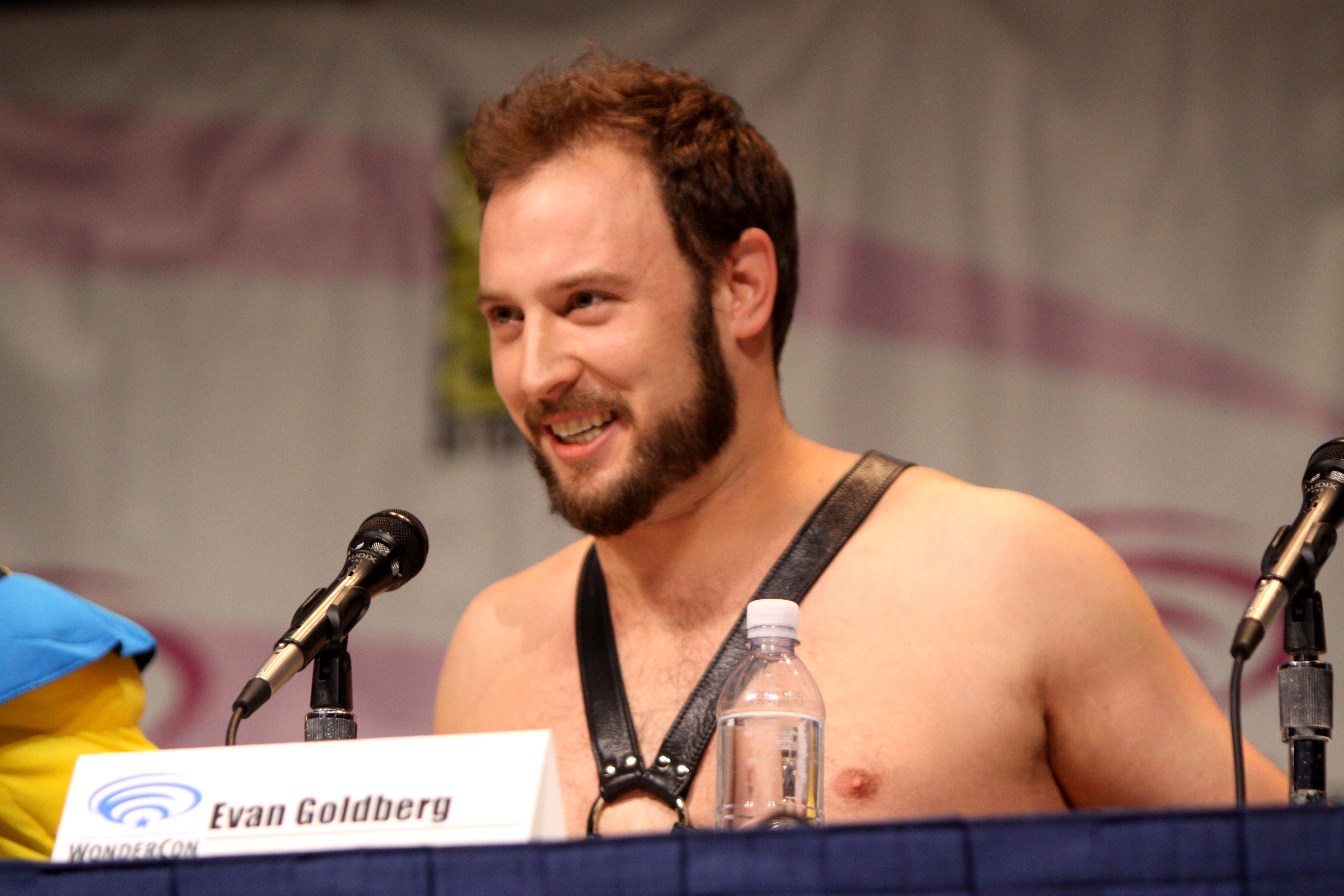 Evan Goldberg at WonderCon 2013